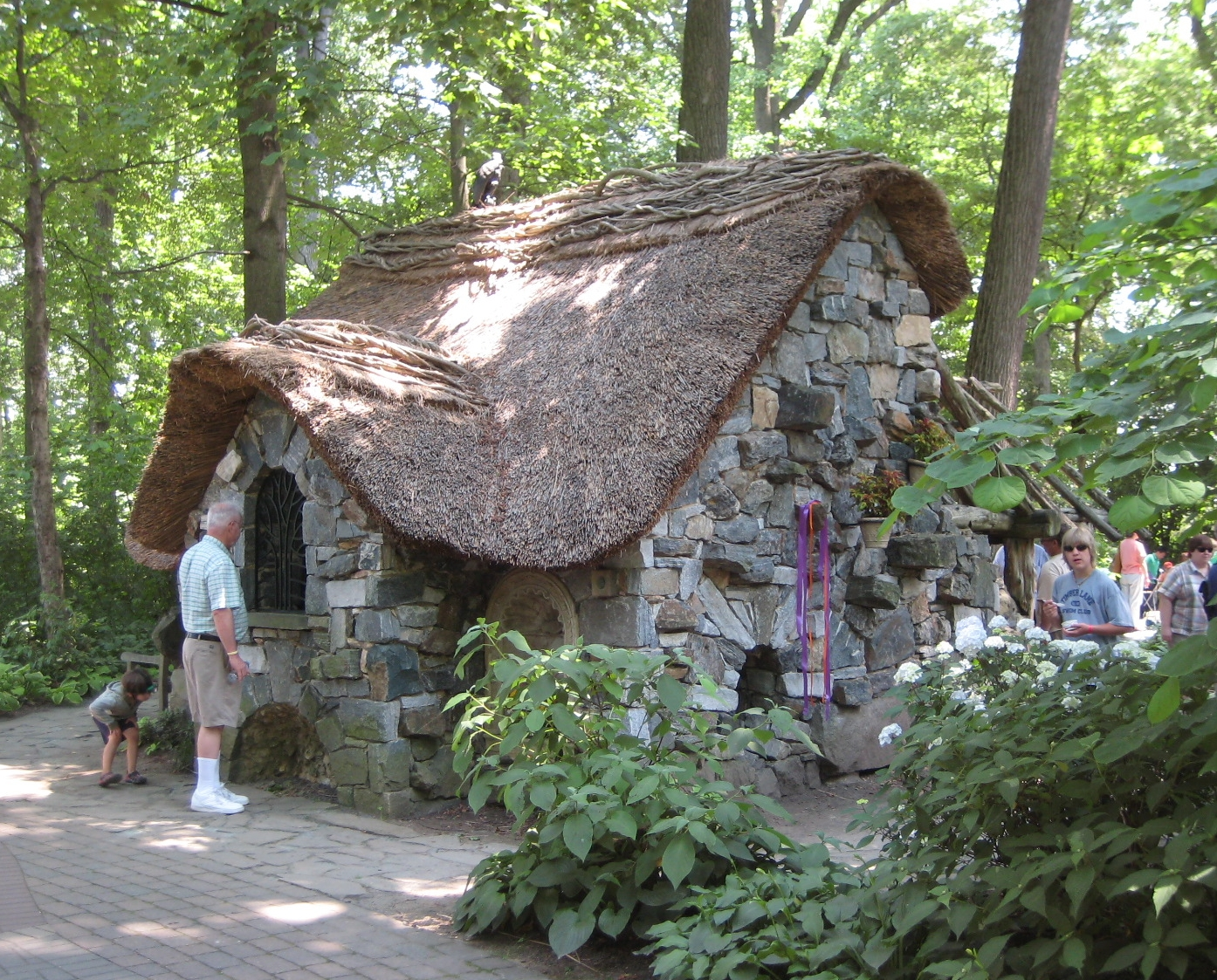 A stone cottage within the "Enchanted Forest" section of the grounds of the Winterthur Country Estate Museum. This portion of the estate is especially intended for families with children, and it was opened in the year 2001.